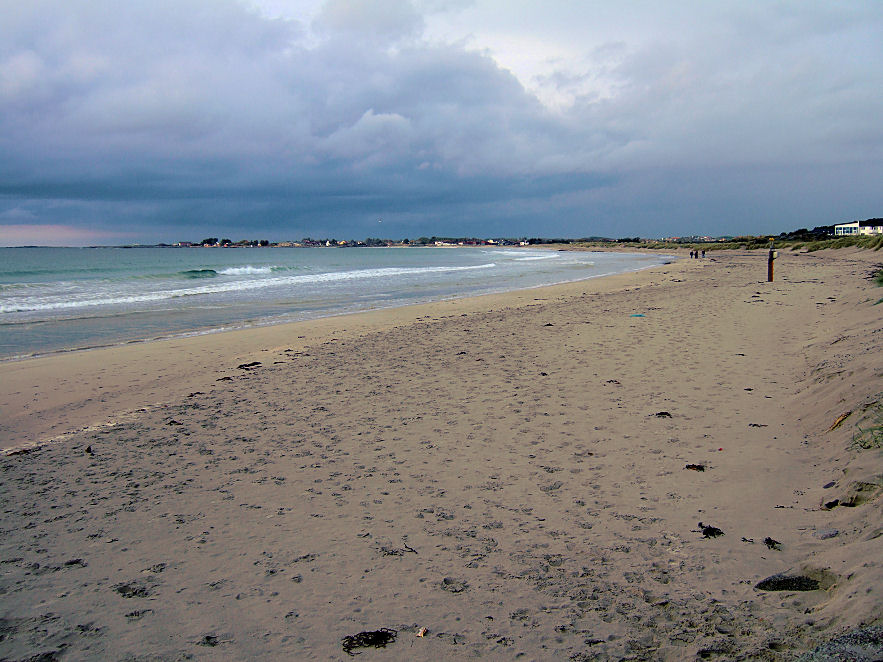 Solastranden Beach in Sola, Rogaland